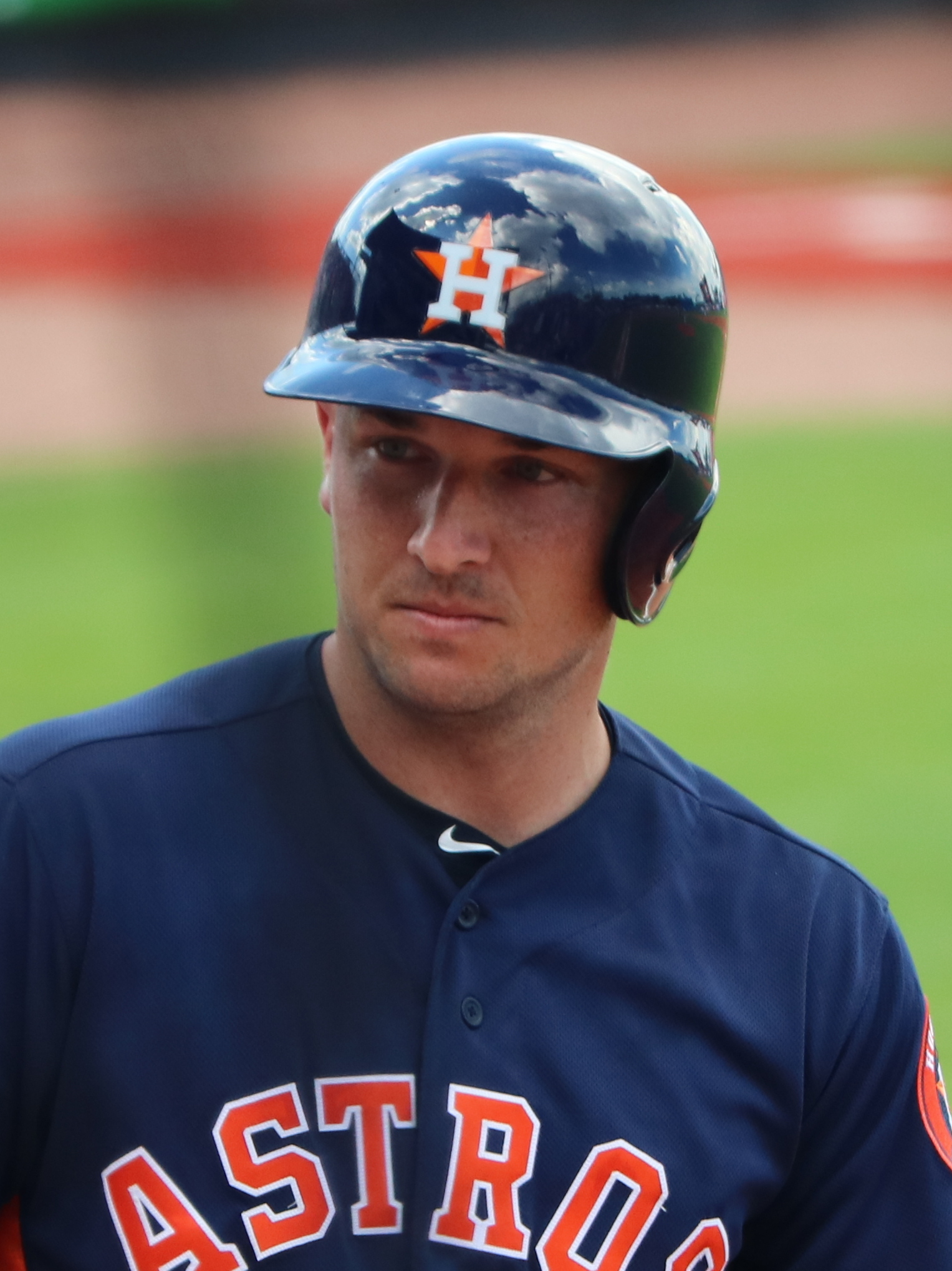 Alex Bregman of the Houston Astros takes an at-bat.